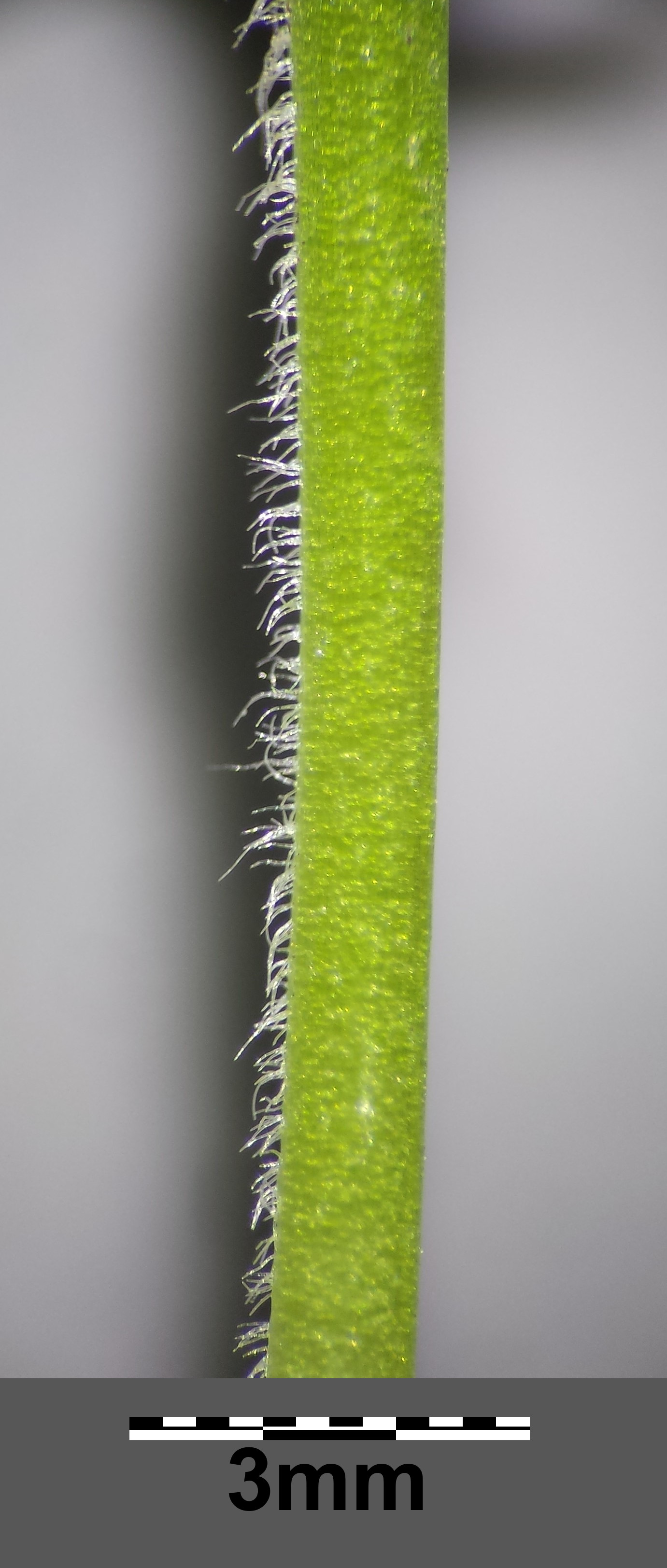 Stem with one line of hairs Taxonym: Stellaria ruderalis ss Lepší et al. Stellaria ruderalis, a new species in the Stellaria media group from central Europe, in Preslia 91, 2019 Location: Sinawastingasse, Vienna-Floridsdorf - ca. 160 m a.s.l. Habitat: ruderal lawn